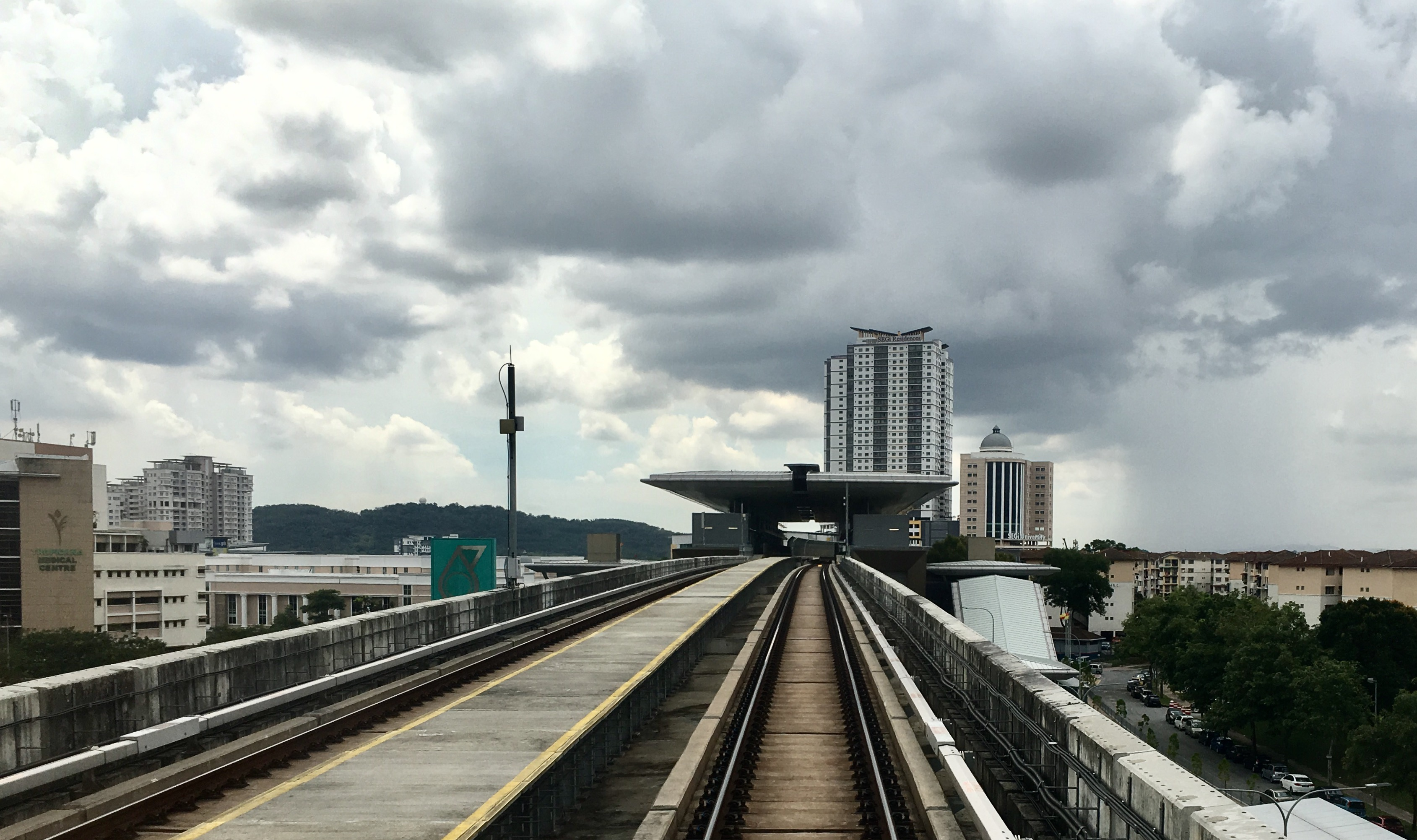 Kota Damansara MRT Station from train with the Tropicana Medical Centre and Segi University at left.